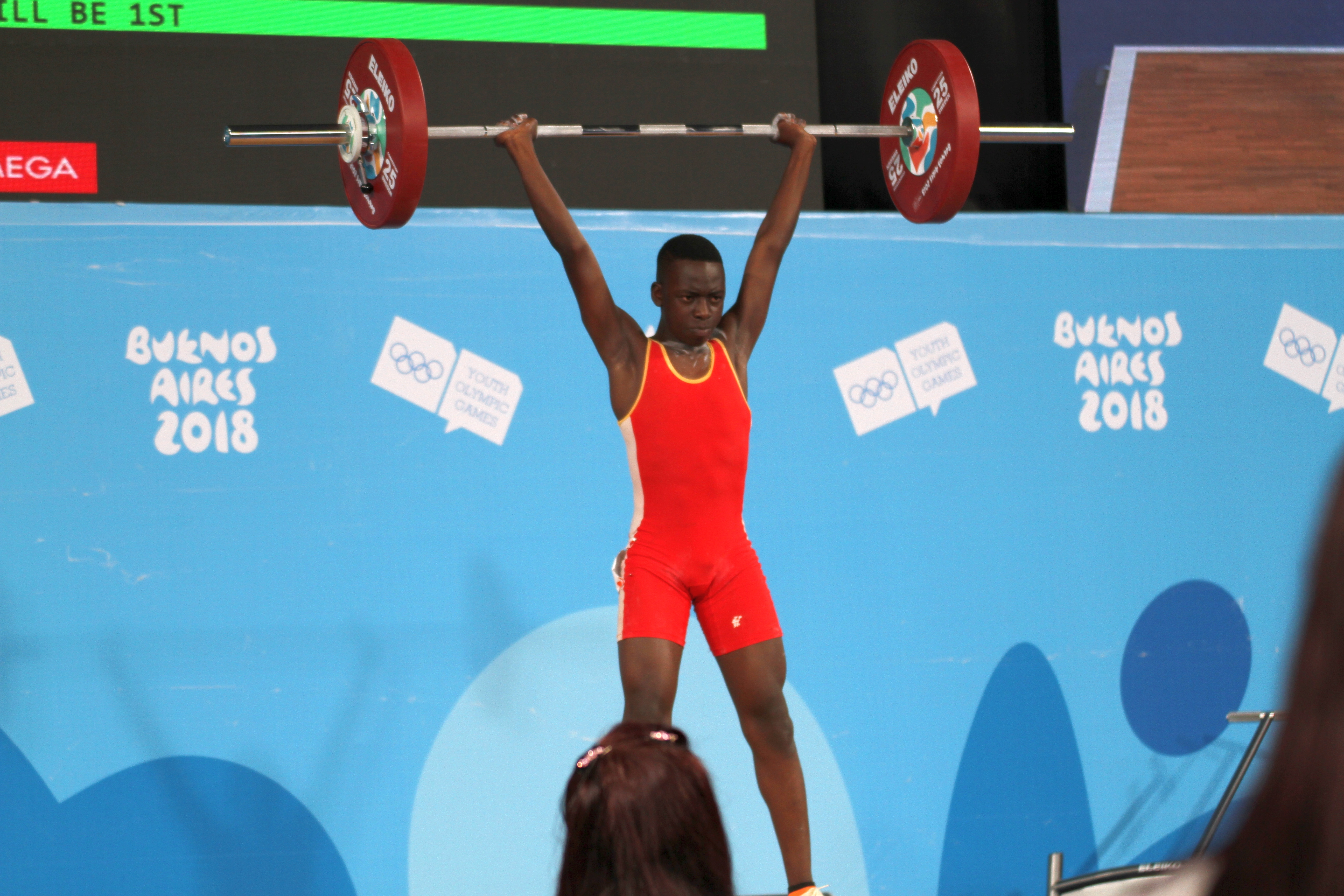 Weightlifting at the 2018 Summer Youth Olympics at 8 October 2018 – Boys' 62 kg